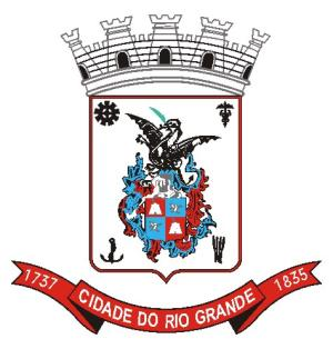 Coat of arms of the city of Rio Grande (Rio Grande do Sul), Rio Grande do Sul, Brazil.